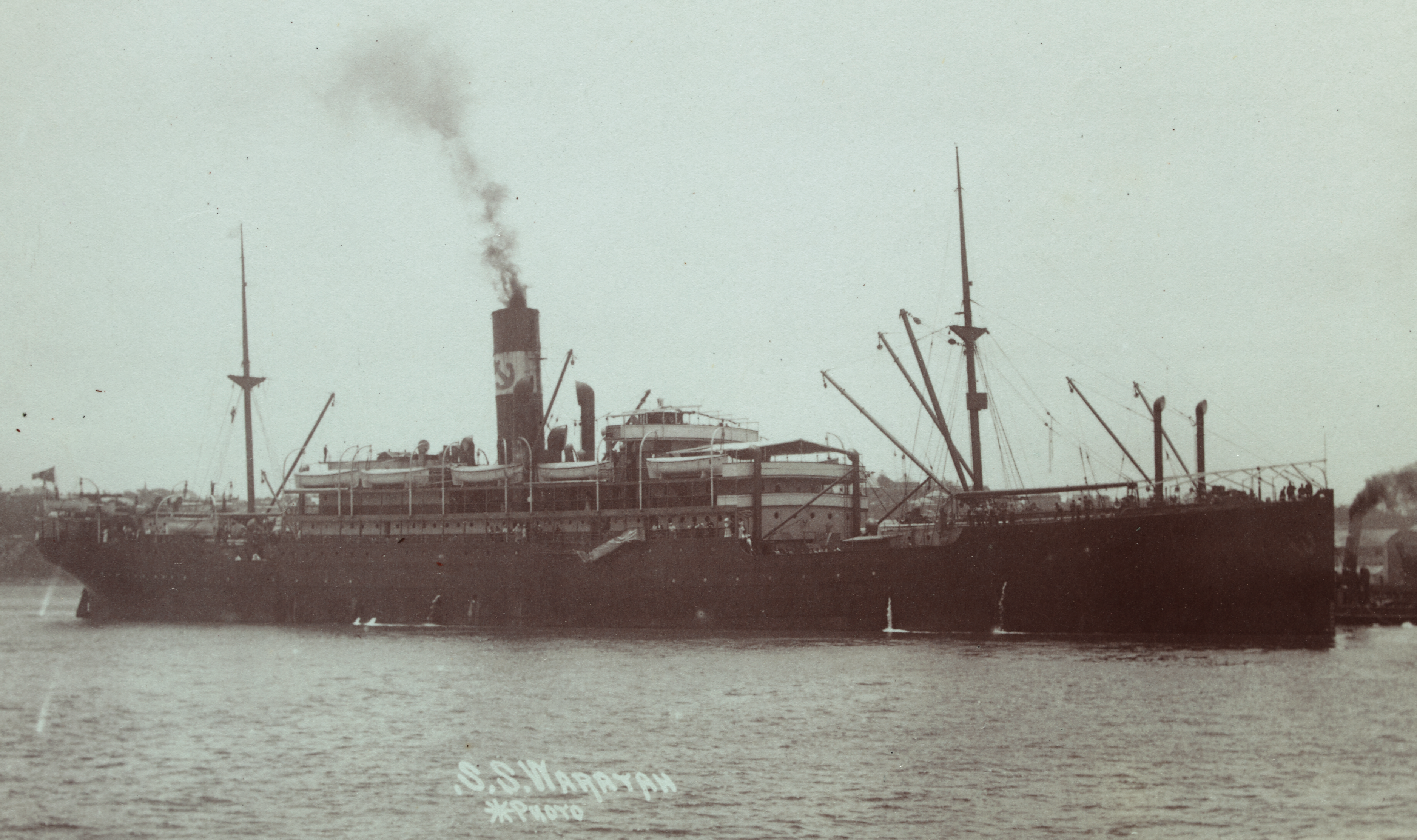 The steamship Liner Waratah at Sydney harbour